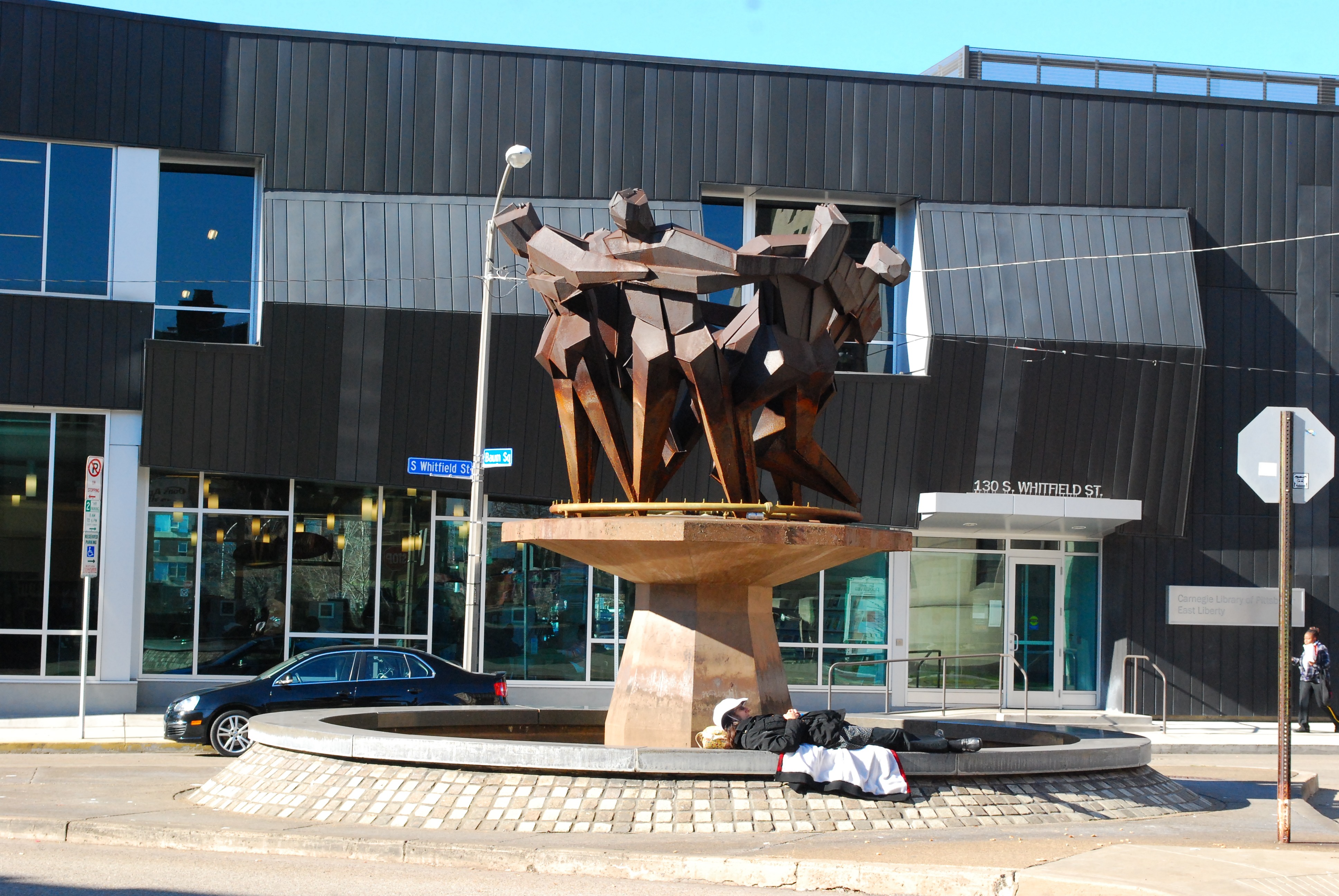 "The Joy of Life" sculpture by Virgil Cantini tops a fountain on South Whitfield St, in Pittsburgh, PA.